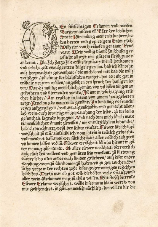 First page of Tractatus de vinis, German translation, 1478, attributed to Arnoldus de Villa Nova